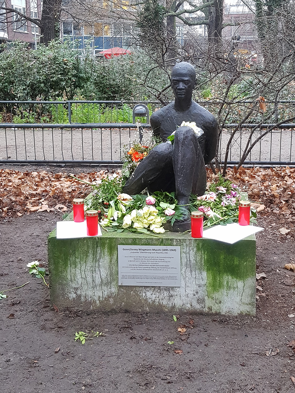 Sculpture by Jenny Mucchi-Wiegmann. Garnisonkirchplatz, Berlin